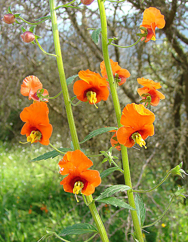 Known as the Mask Flower, or locally as Ajicillo. In context at